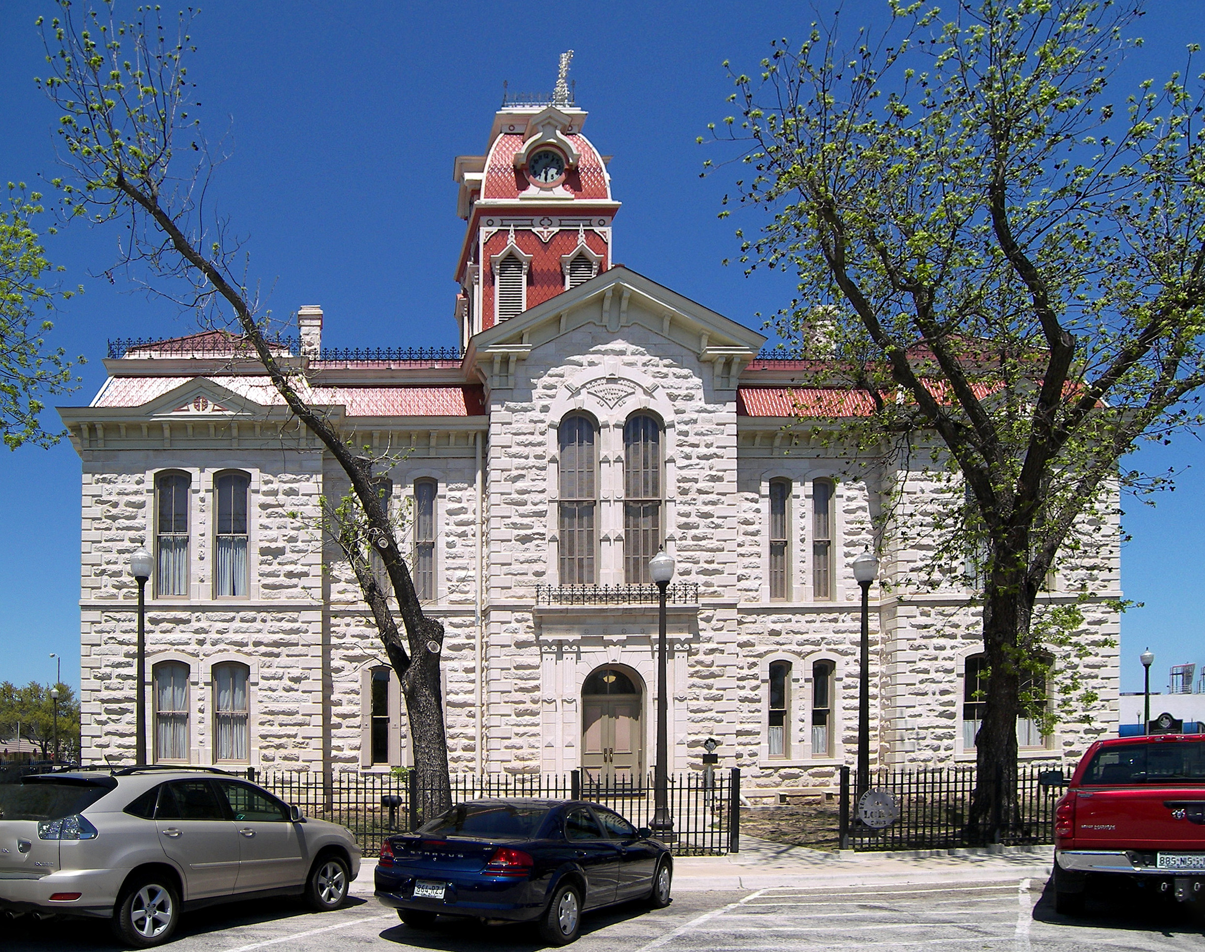 The Lampasas County, Texas Courthouse was completed in 1883. It is located in Lampasas, Texas. The structure was designated a Recorded Texas Historic Landmark in 1965 and listed on the National Register of Historic Places on June 21, 1971.